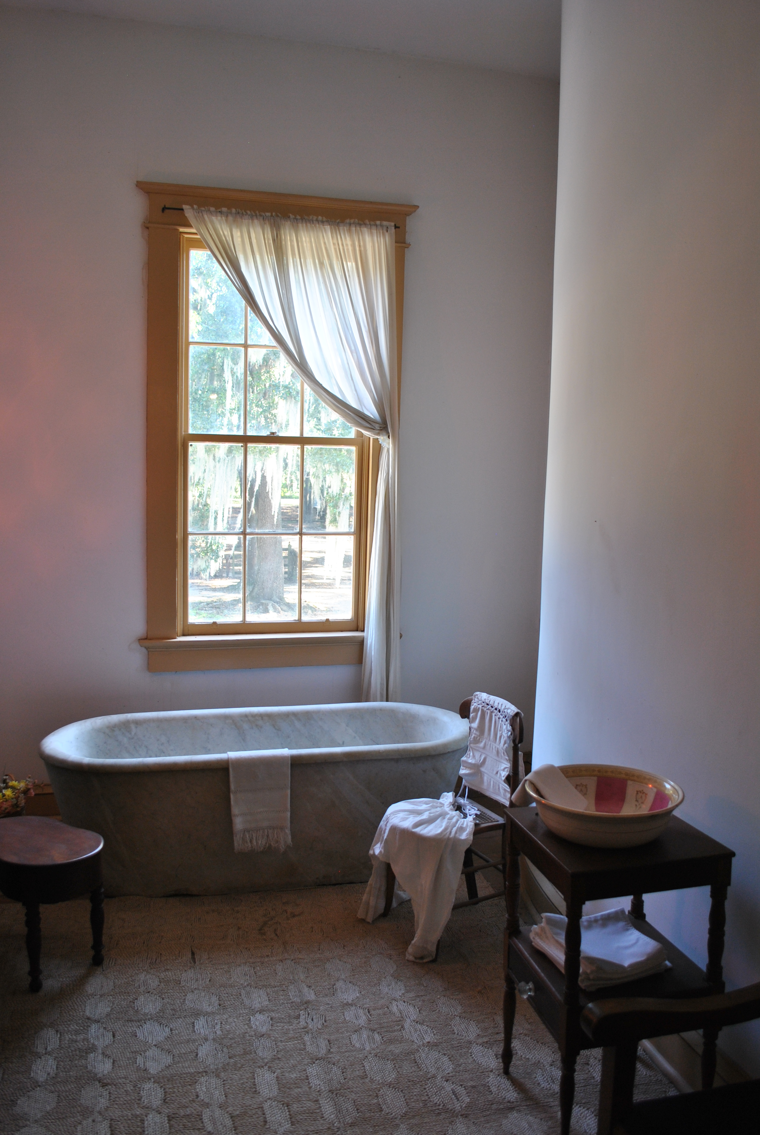 Due in part to an old legend that the privateer Jean Lafitte had hidden treasure in the house, treasure-seekers left gaping holes in the walls. Vandals also stripped the building of its Italian-marble mantels, cypress paneling, Spanish-style ceramic tiles, and glass window panes. Fortunately, a local sheriff prevented the theft of the plantation's original 1840s iron entrance gates and a 1,400 lb (640 kg) marble bathtub, rumored to be a gift from Napoleon Bonaparte to the family.